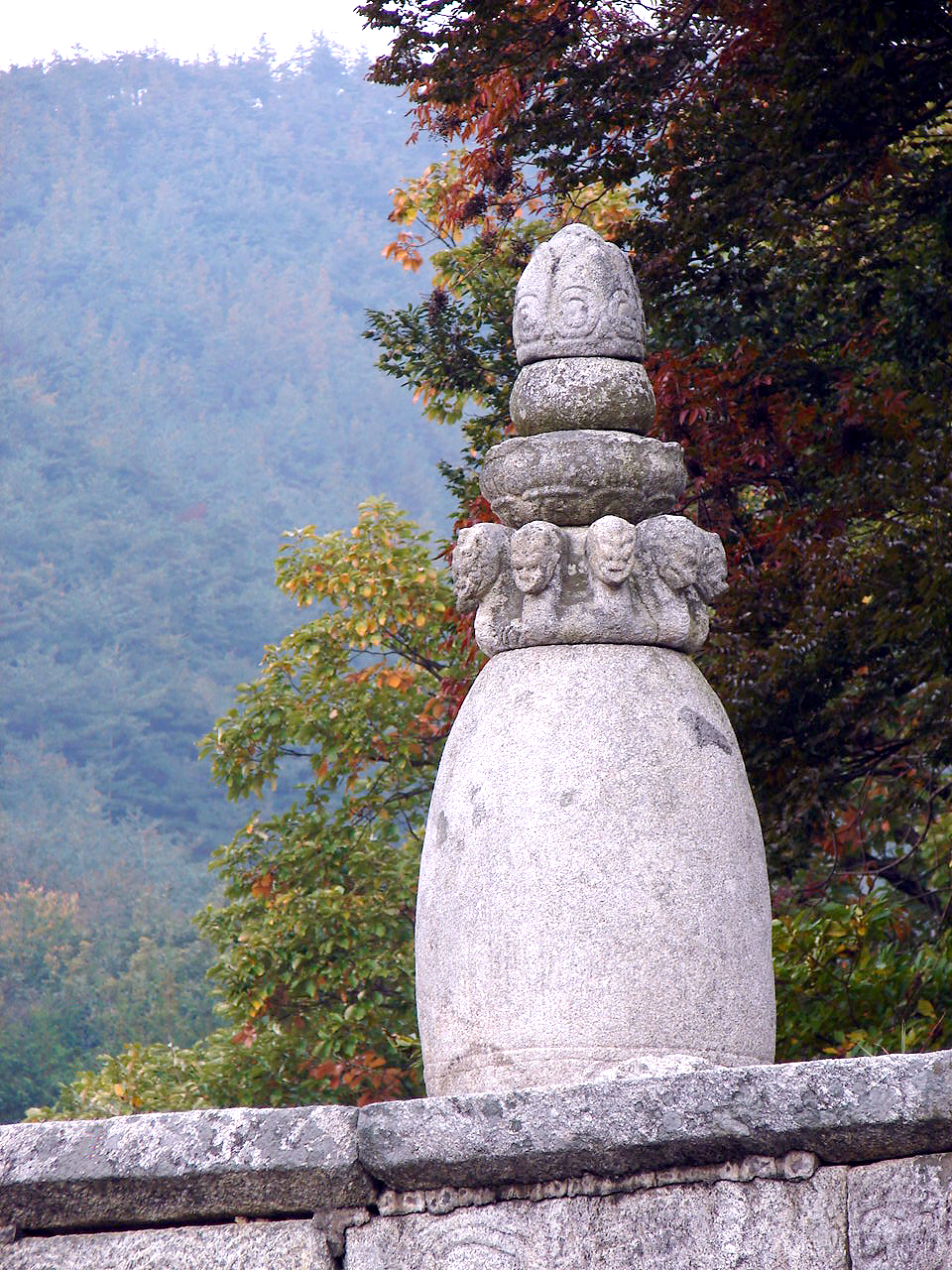 Geumsansa Bangdeunggyedan (Ordination altar of Geumsansa Temple) is a stone pagoda in the shape of a bell. The main body of the pagoda, in the shape of a bell stands on a stone platform. On the top, nine dragons are carved with their heads protruding out under the engraving of a lotus flower. This pagoda is the oldest stone bell still existing in Korea. Historians believe from the fine structure of the sculptures and ornamentation that the pagoda was built during the early period of the Goryeo Dynasty. National Treasure #26